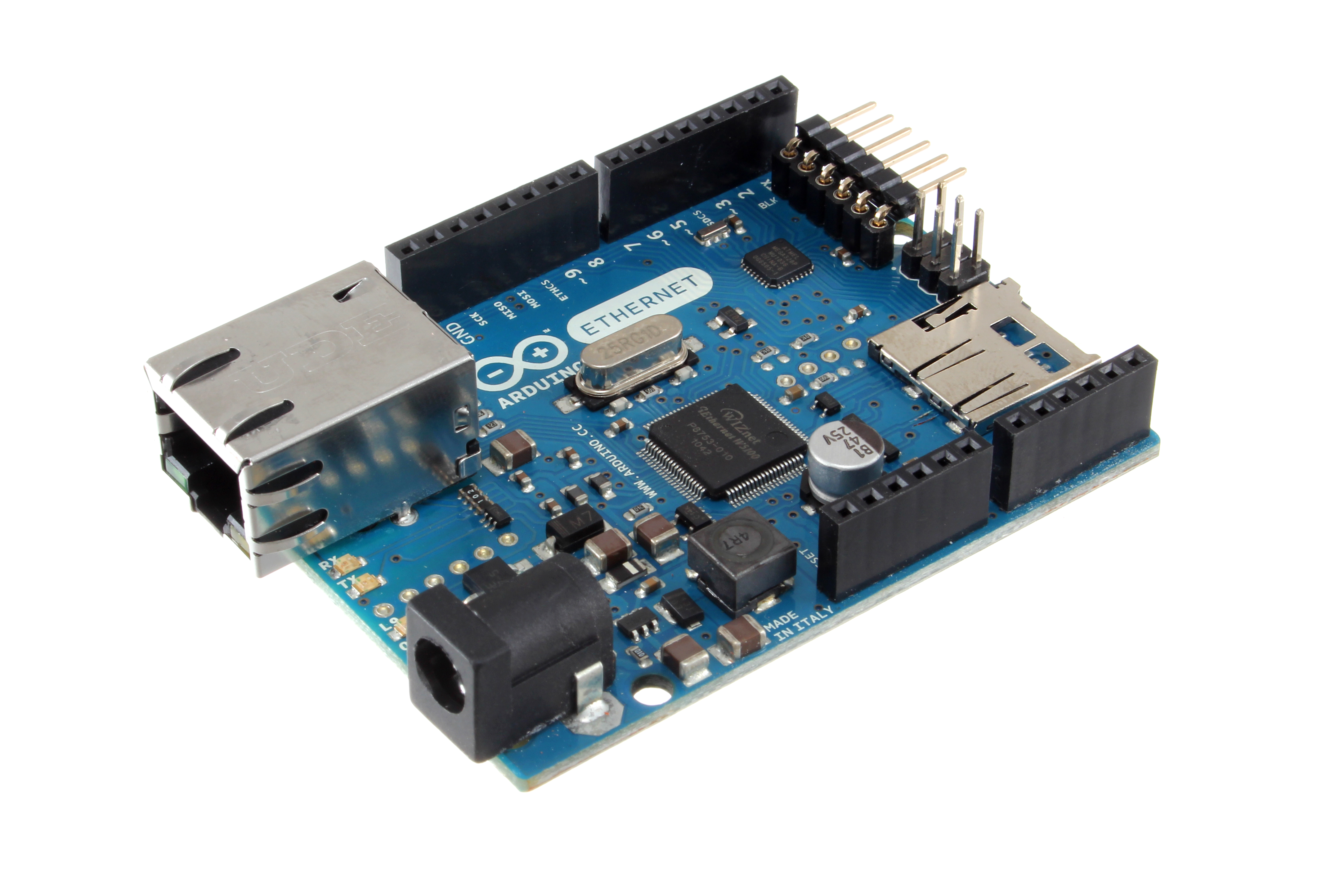 Looking to build an Internet connected device? The Arduino Ethernet is the ticket, with an Arduino UNO paired with an ethernet port it's the perfect piece of hardware to experiment with the Internet of Things. Or if you've developed something using an Arduino and an Ethernet shield it can be ported to this board with no code changes (uses the same WizNet W5100 controller). Available from oomlout